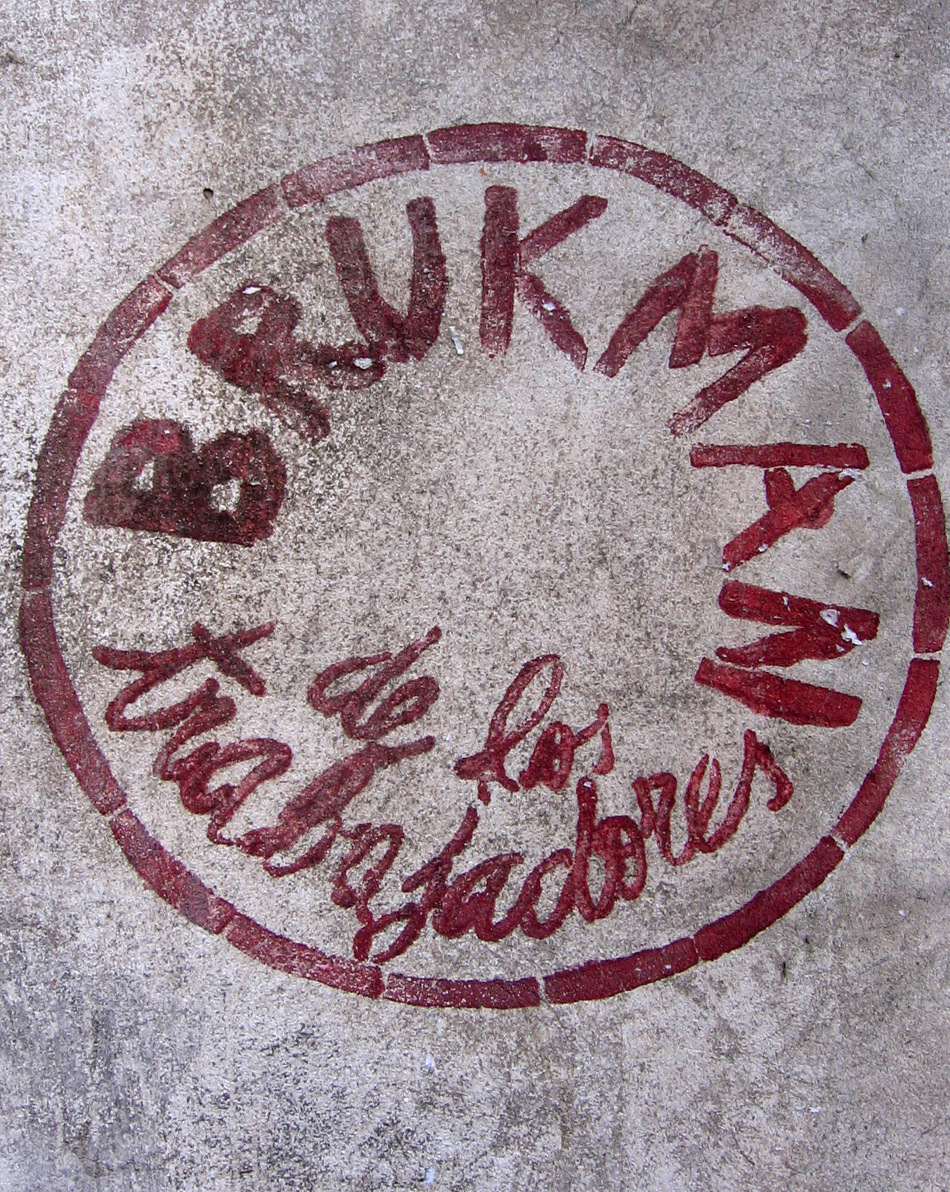 Strenciled graffiti near Brukman factory, which reads "Brukman belongs to the workers." Stencil by Taller Popular de Serigrafía.